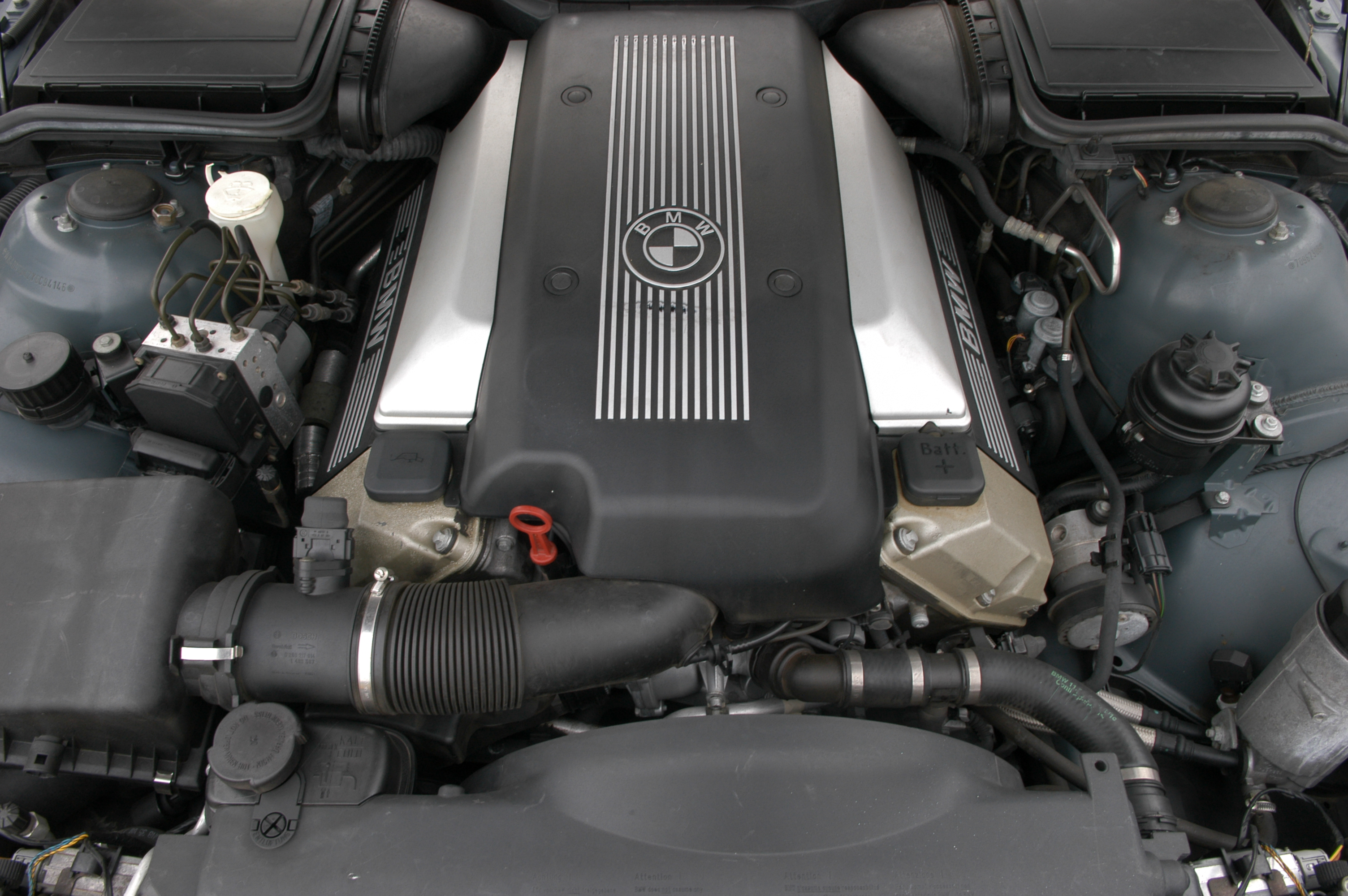 A BMW M62TUB44 4.4L V8 in a BMW 540i, built in October of 1999. It is useful to compare this image to the image of the very similar but older M62B44.